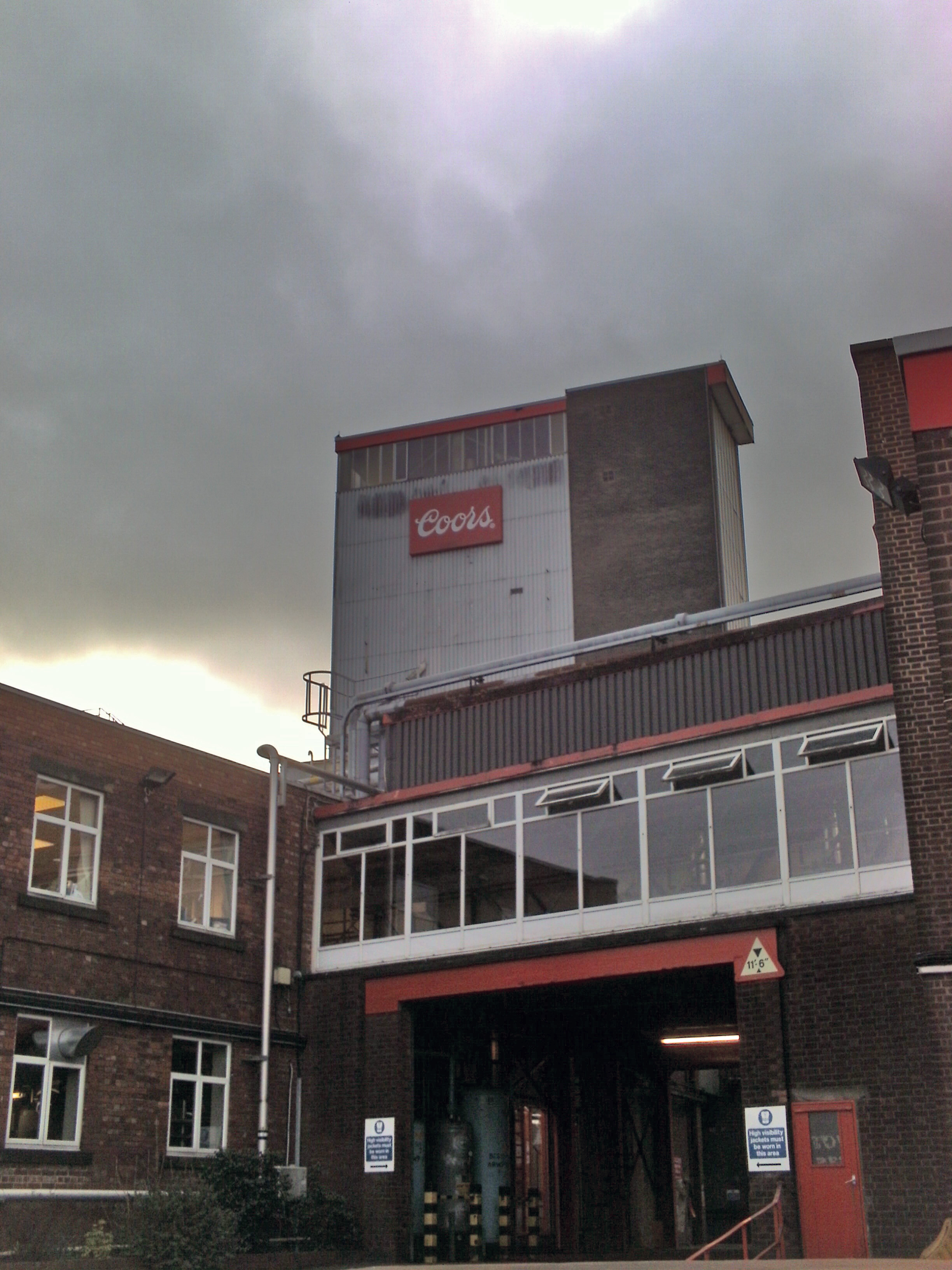 The Coors (formerly Bass) brewery in Tadcaster, North Yorkshire, UK.